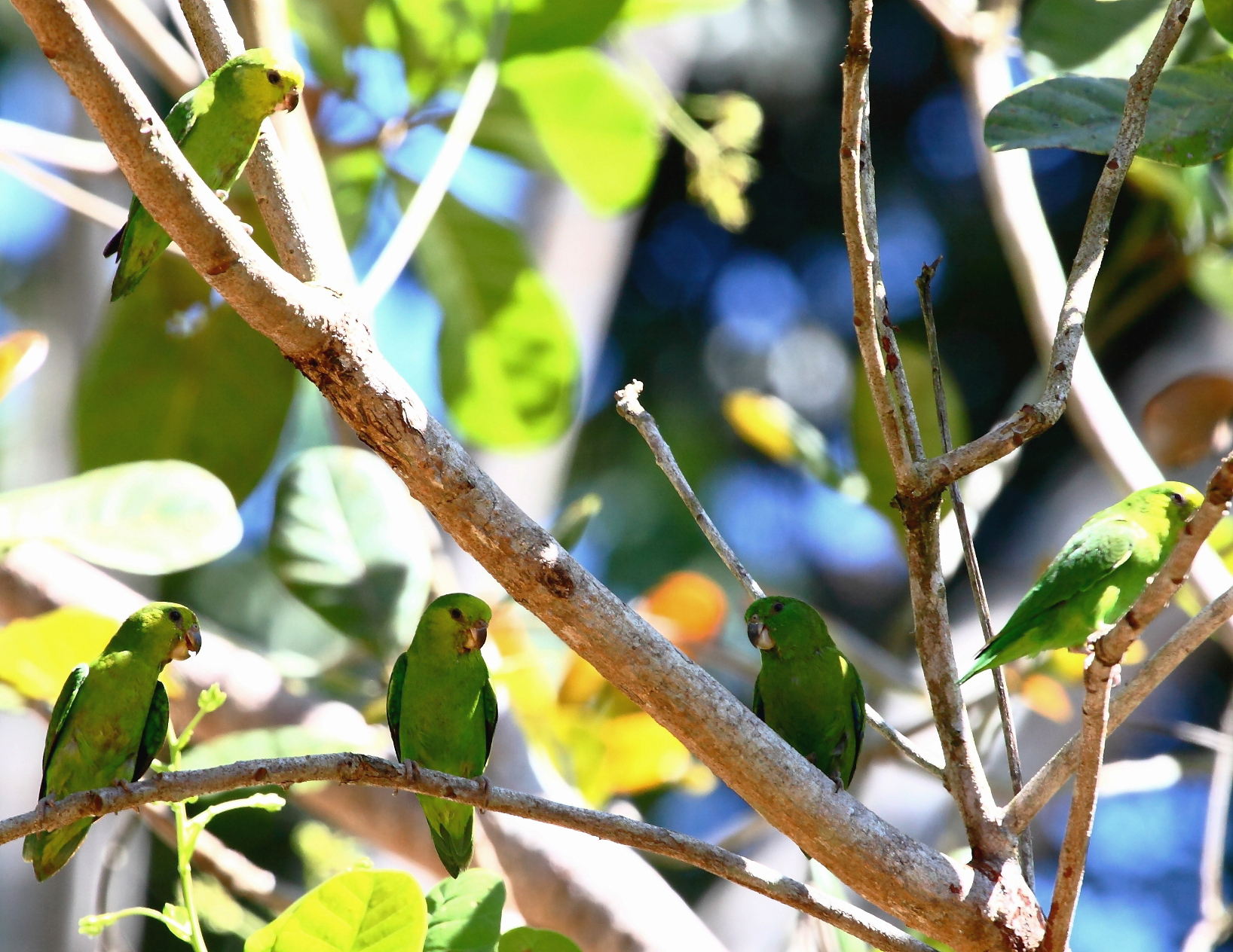 Dusky-billed Parrotlet at Alta Floresta - MT - Brazil